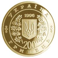 Coin of Ukraine